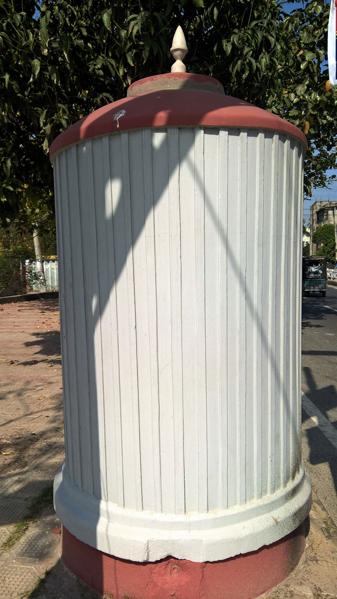 Dhopkols are with us for 120 years. It is an unique thing found only in Rajshahi. On 14 August, 1937 with the help of the donation of Maharani of Puthia Rani Hemanata Kumary Rajshahi Municipality established a water treatment plant for supplying pure water all over the city. The establishment was named Maharani Hemanata Kumary Water Works. Pipelines were installed and at most of the places concrete cylindrical water tanks were built so that water might be stored for common people for all hours. These water tanks came to known as Dhopkols.